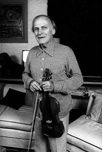 Yehudi Menuhin